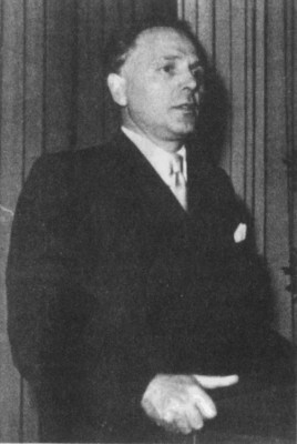 Matúš Černák (1903-1955). Czechoslovakian politician.